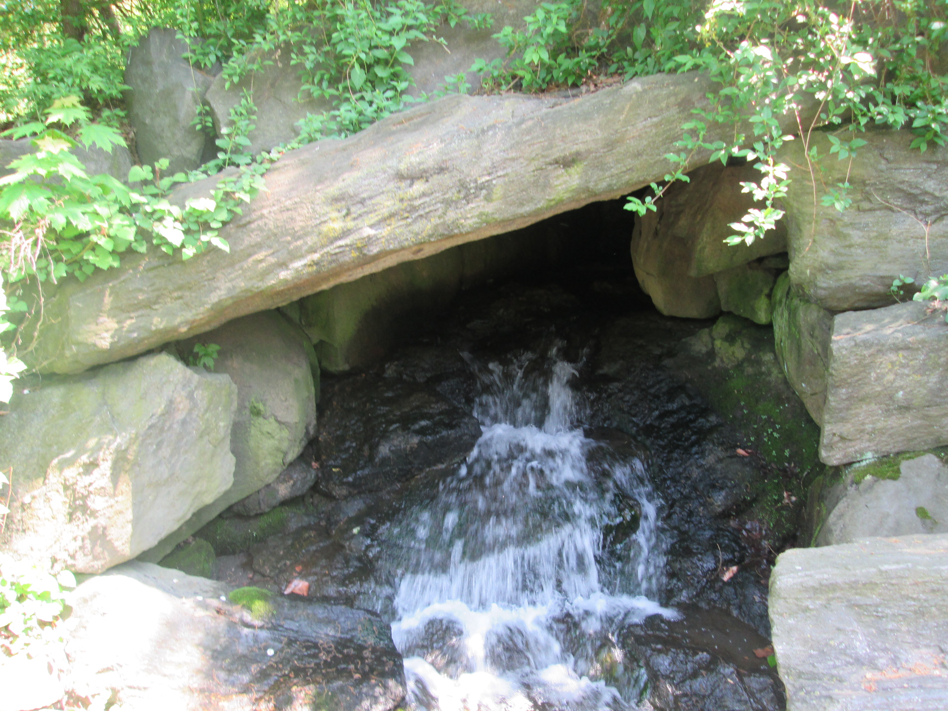 Central Park in Manhattan, New York; vicinity of the Pool and the Loch in the northern section of the park, looking at the Pool's headwaters coming from a spring